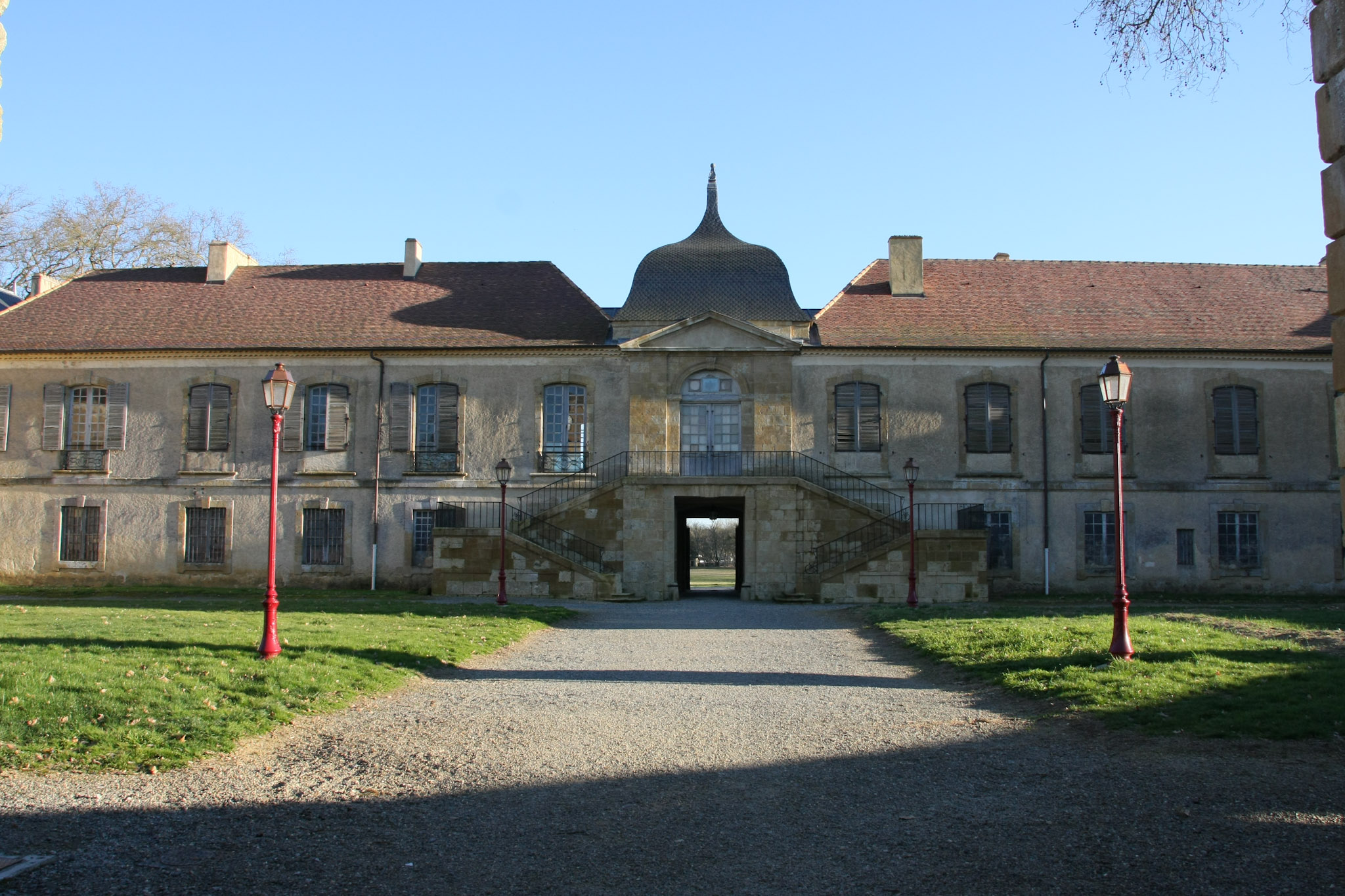 Isle de Noé 's Castle